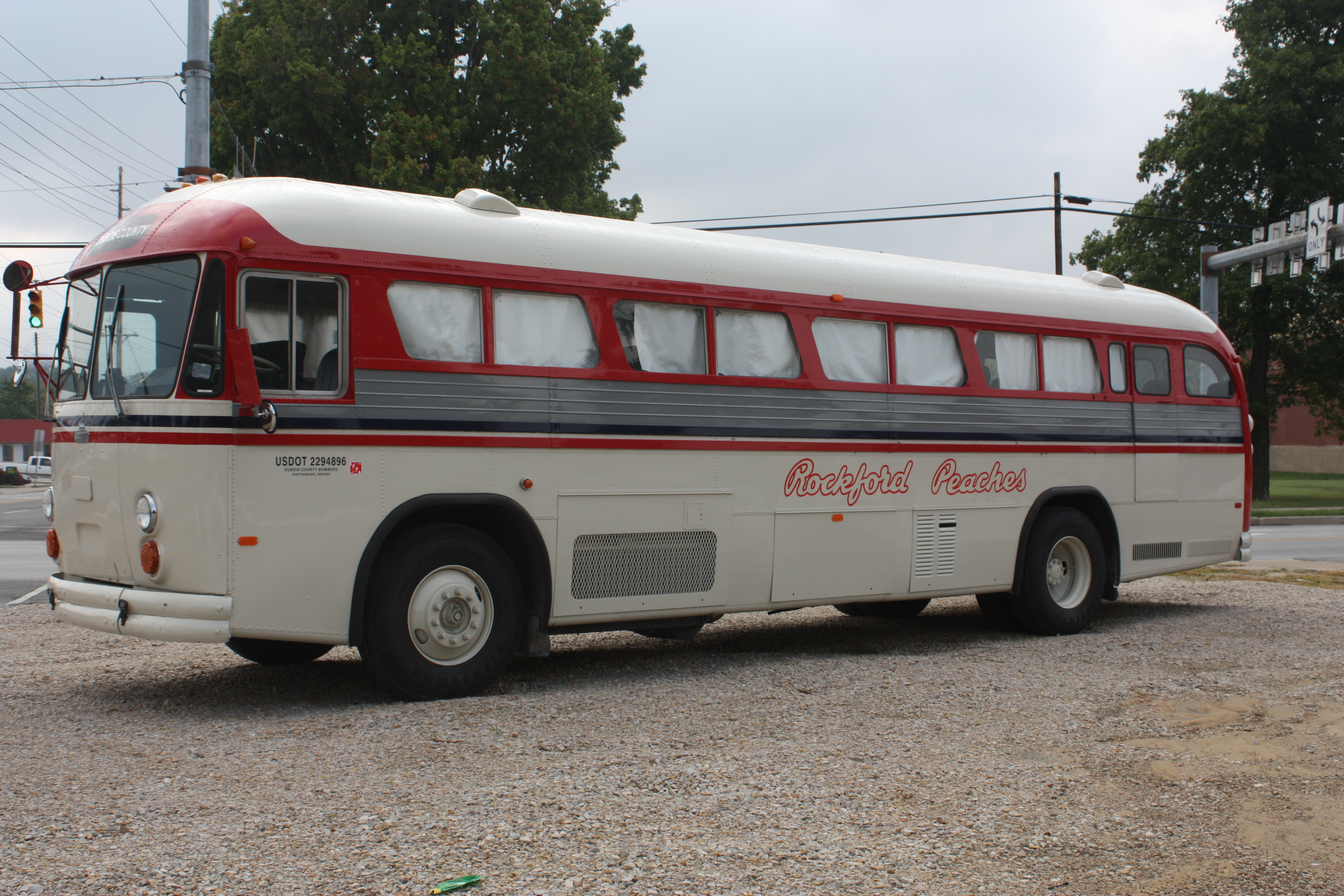 This is the team bus used by the Dubois County Bombers, a collegiate summer league baseball team. The bus is a repainted "crown motor coach school bus" which features artwork commemorating the Rockford Peaches, an All American Girls Professional Baseball League team, which played between 1943 and 1954. The Rockford Peaches and the league were featured in the film "A League of Their Own", which was filmed at the Bombers' home ground, League Stadium, in Huntingburg, Indiana.